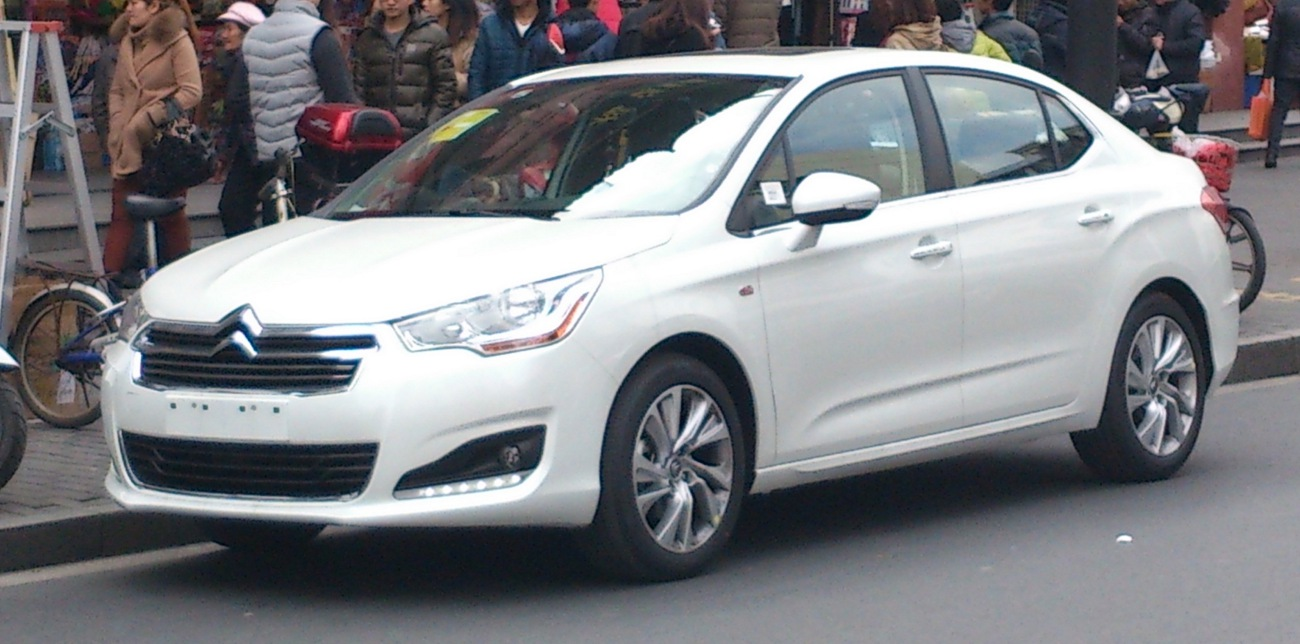 Citroën C4L photographed in Shanghai, China.